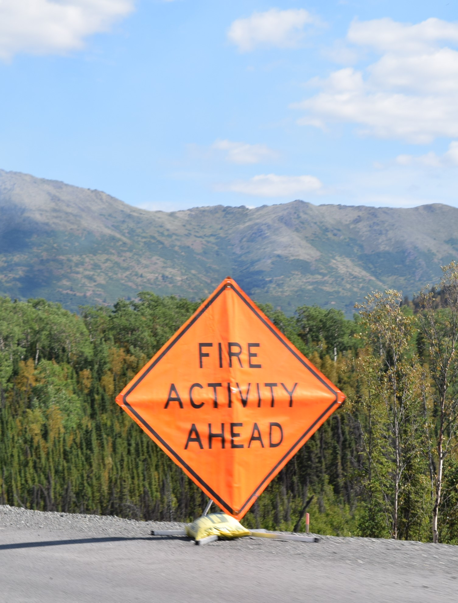 A fire warning road sign near Swan Lake, Alaska, warning of the 2019 wildfires in the area